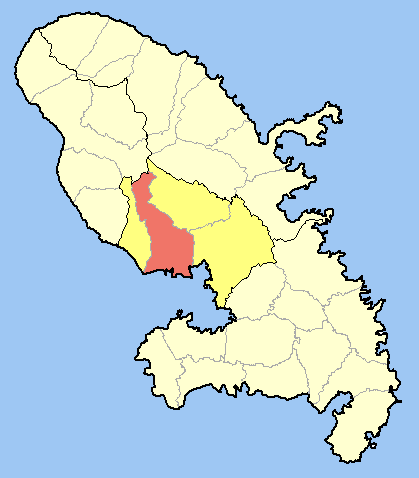 Location of Fort-de-France within Martinique